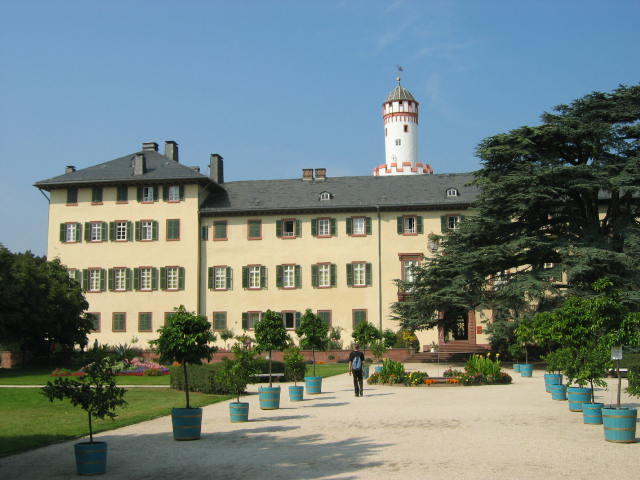 Bad Homburg, Landgrafenschloss, parkside, and 'White Tower'